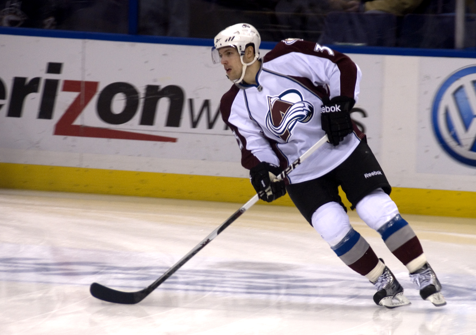 Ryan O'Byrne St. Louis Blues vs. Colorado Avalanche - National Hockey League - 2010–11 NHL season. Erik Johnson and Jay McClement returned for the first time to face their former team. The Avs won. Photo taken by Sarah Connors on February 22, 2011. This photo also appears in Sarah Connors Flickr set "Blues vs. Avs, 2/22/11" (Set of 86).